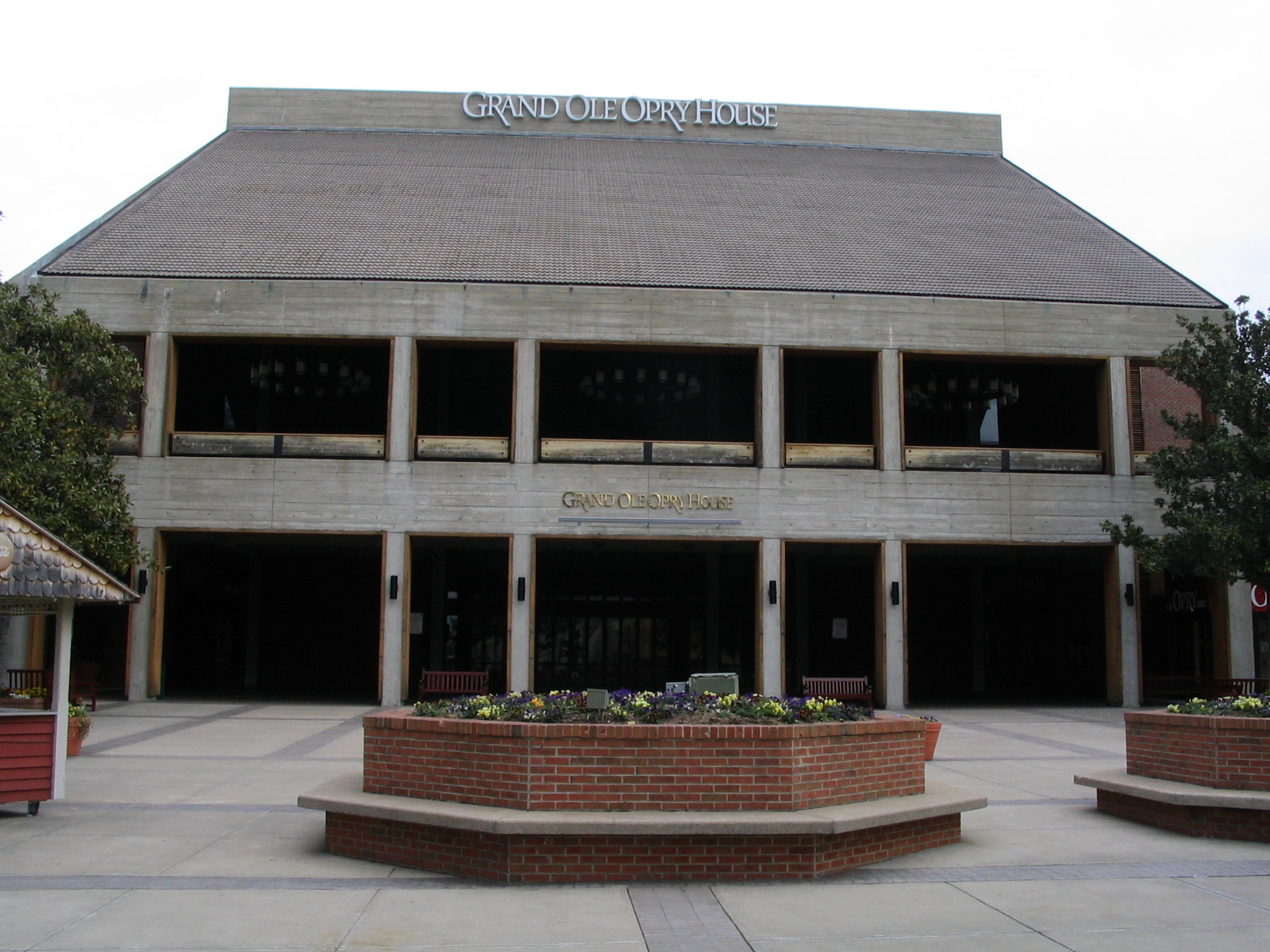 Grand Ole Opry, Nashville, Tennessee